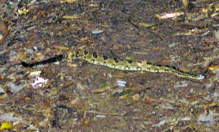 A Timber rattlesnake - Crotalus horridus on the Old Settlers Trail in Greenbrier, located in the Great Smoky Mountains National Park of East Tennessee. Timber rattlers are relatively common on the slopes of Greenbrier Pinnacle.